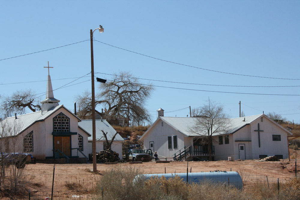 Presbyterian Church in Kayenta, AZ.